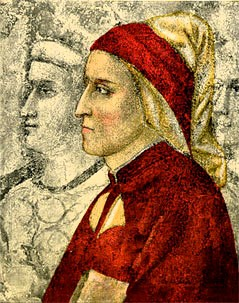 Engraving after the fresco in Bargello Chapel, painted by Giotto di Bondone in the 14th century. Detail on Dante's eye was originally never filled in, but in 1840 a painter named Marini did a touch-up job on Giotto's painting of Dante, filling in the eyeball. Refer to page 59 of Michael Caesar's Dante, the Critical Heritage, 1314(?)-1870.